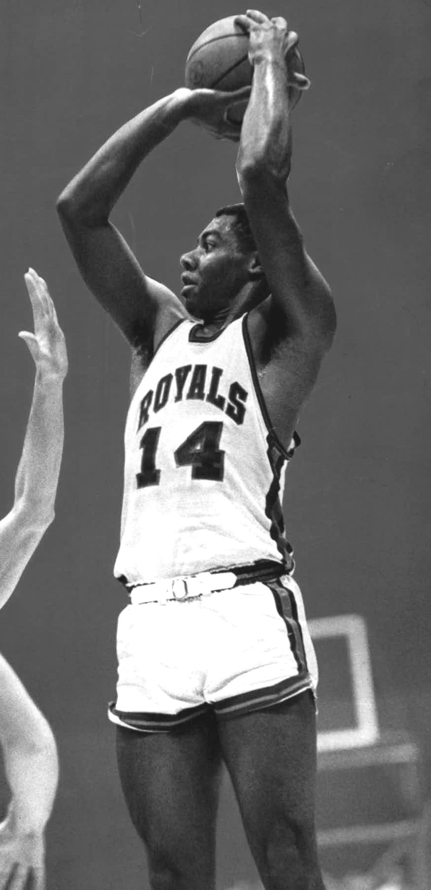 Professional basketball player Oscar Robertson